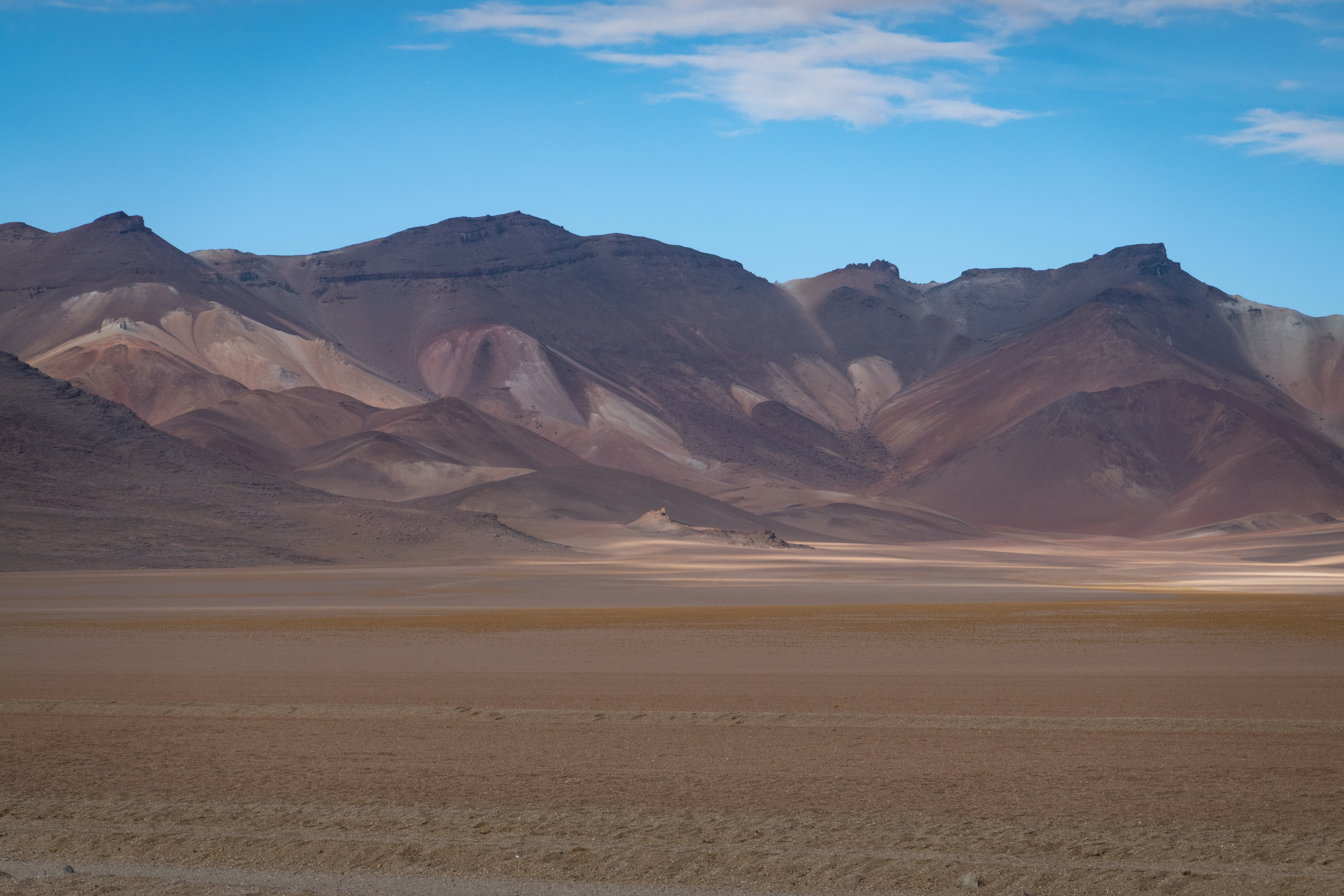 Salvador Dali Desert